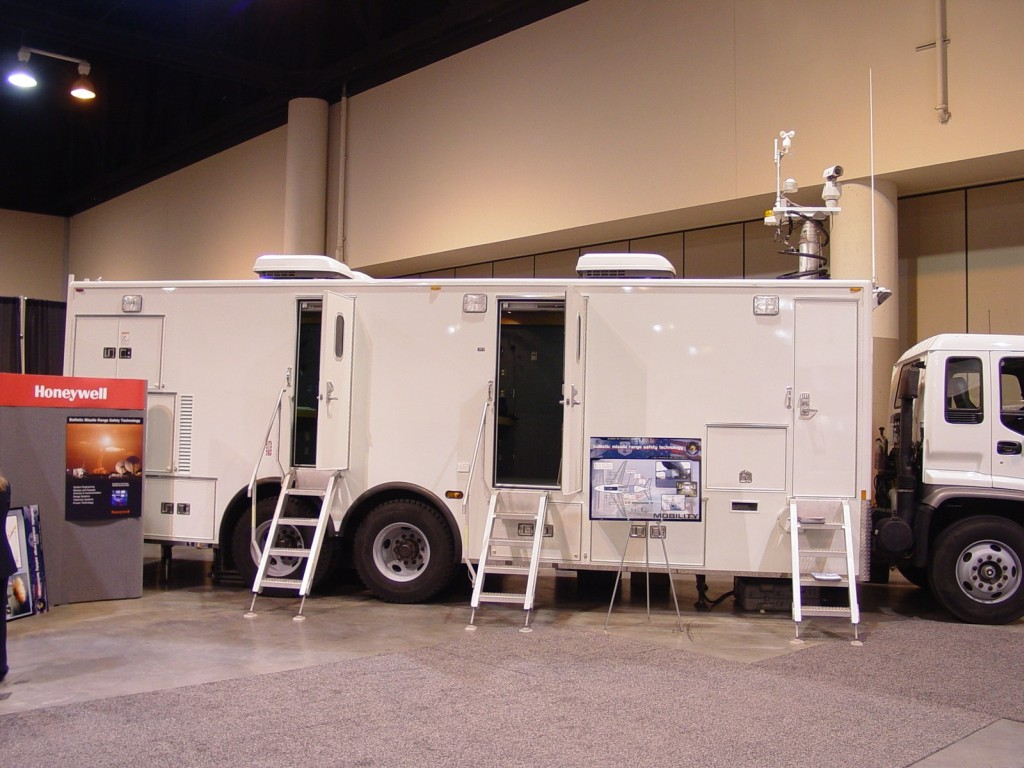 BMRST Truck. Image taken by me. October 2005.